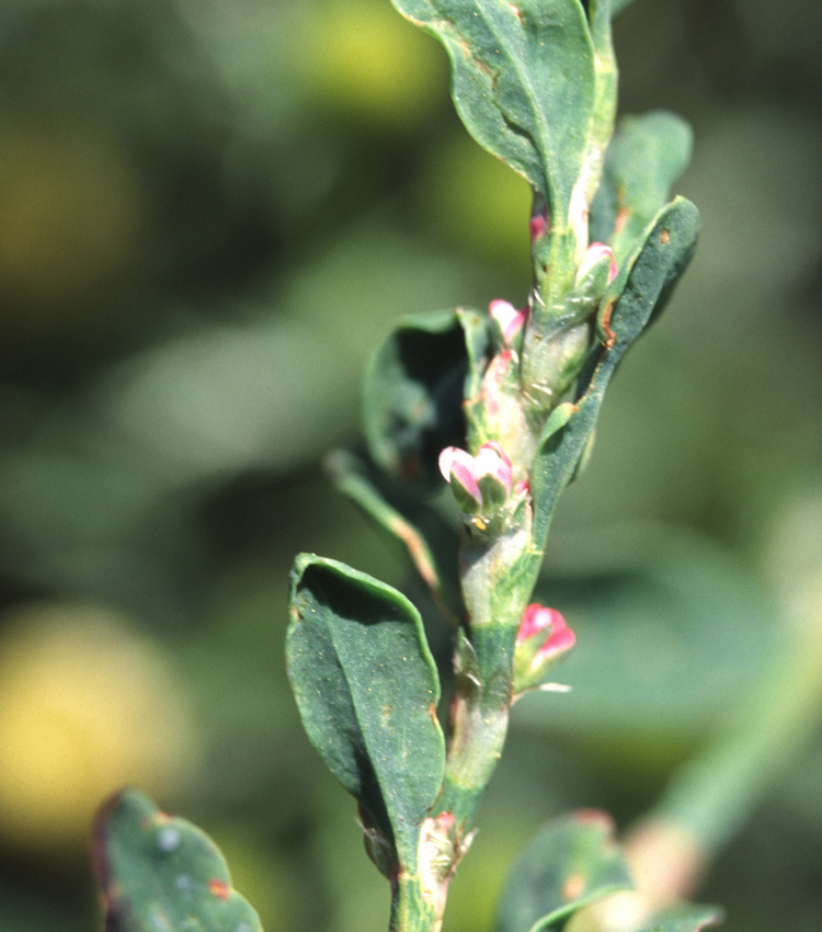 Equal-leaved Knotgrass Polygonum arenastrum at Humboldt Bay National Wildlife Refuge Complex, California, USA